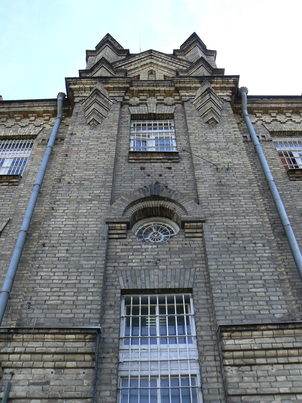 Prison in Białystok